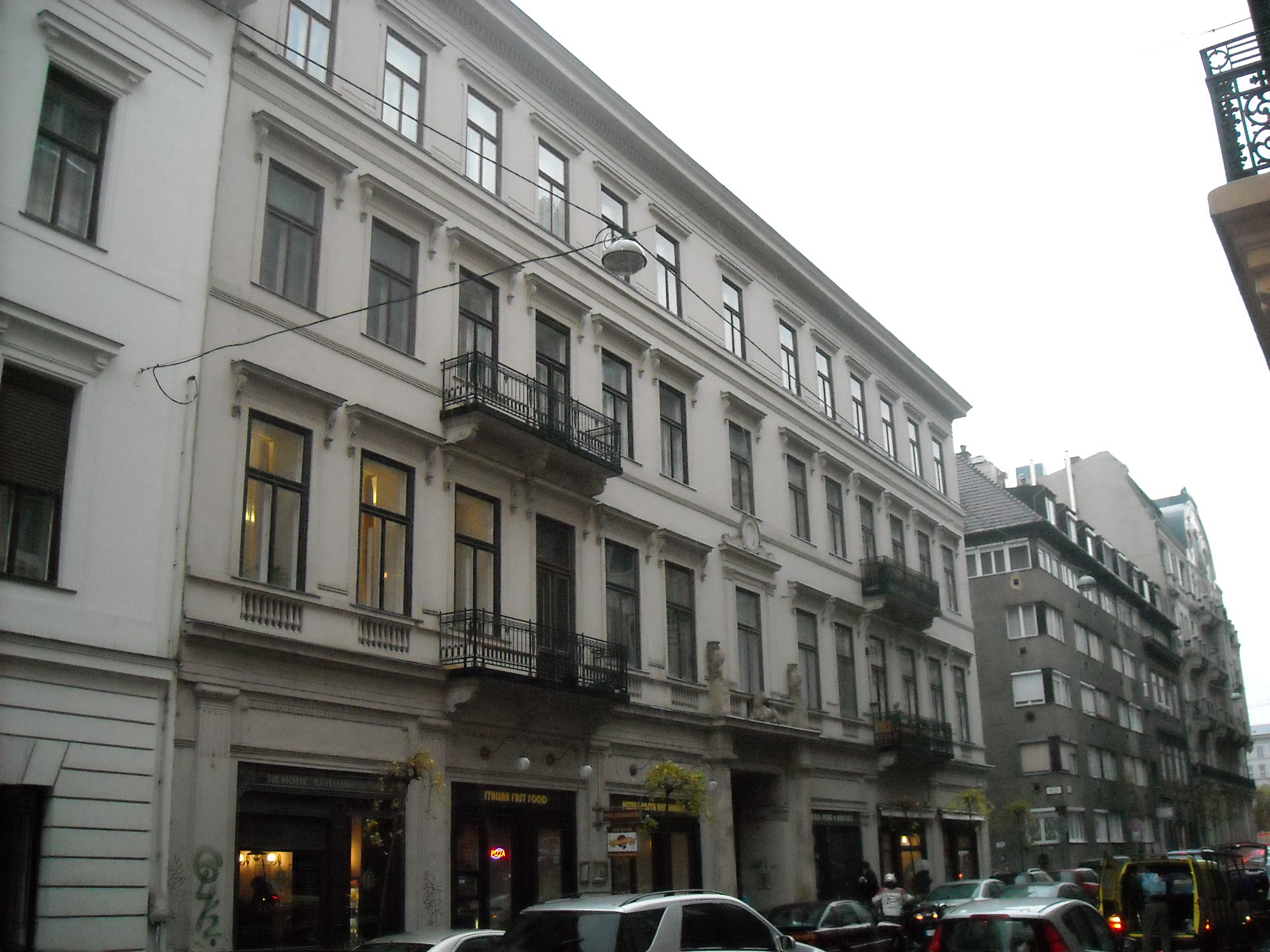 Nádor utca 5, Budapest This is a photo of a monument in Hungary. Identifier: 557